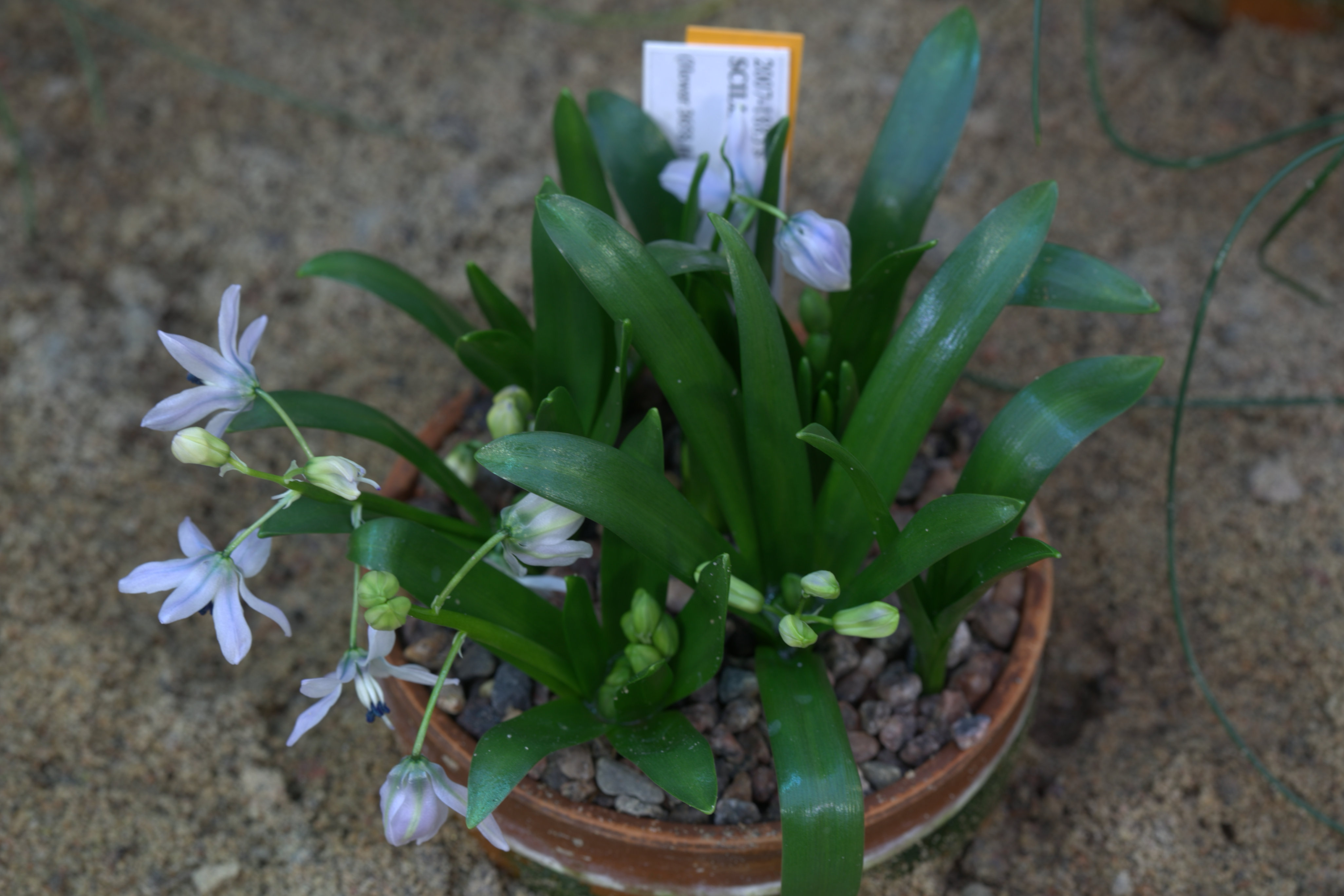 Scilla gorganica in Gotheburg Botanical Garden. Plant id: 2007-1883 s Z